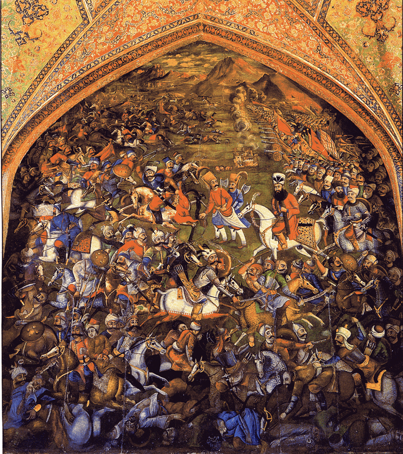 Battle of Chaldiran (1514). From Chehel Sotoun palace, Isfahan.